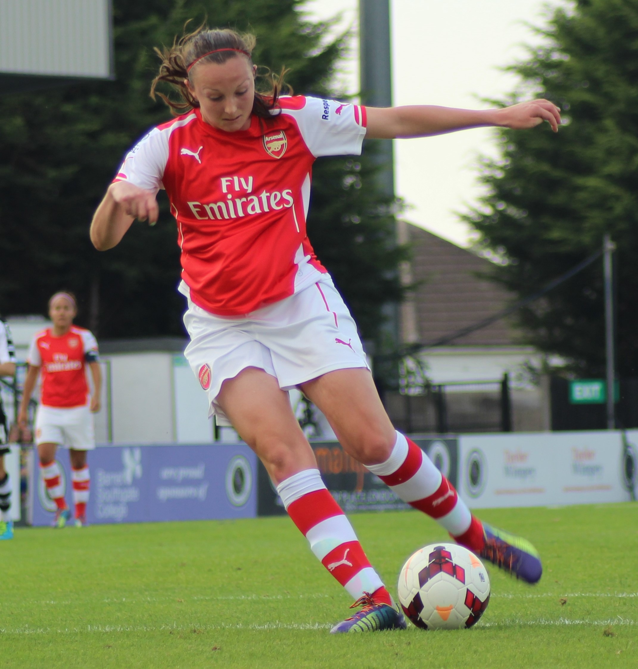 Caroline Weir of Arsenal Ladies scores against Notts County.